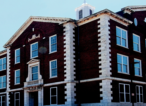 McKinley Technology Senior High School, Washington, DC